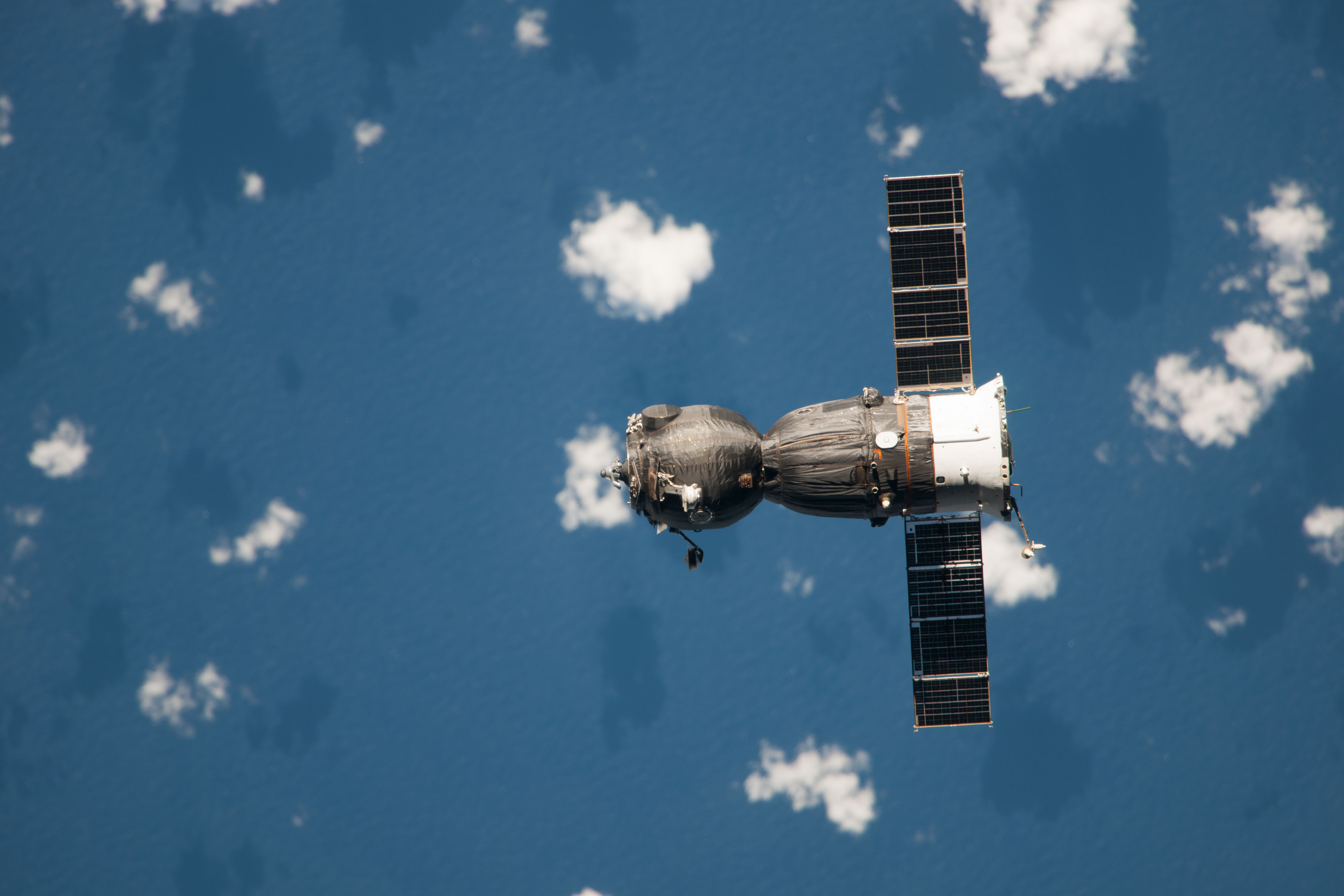 The Soyuz TMA-09M spacecraft departs from the International Space Station's Zvezda Service Module and heads toward a landing near the town of Zhezkazgan, Kazakhstan on Nov. 11, 2013 (Kazakh time). Russian cosmonaut Fyodor Yurchikhin, Expedition 37 commander; along with NASA astronaut Karen Nyberg and European Space Agency astronaut Luca Parmitano, both flight engineers, are ending a five-and-a-half month stay at the space station where they served as members of the Expedition 36 and 37 crews.